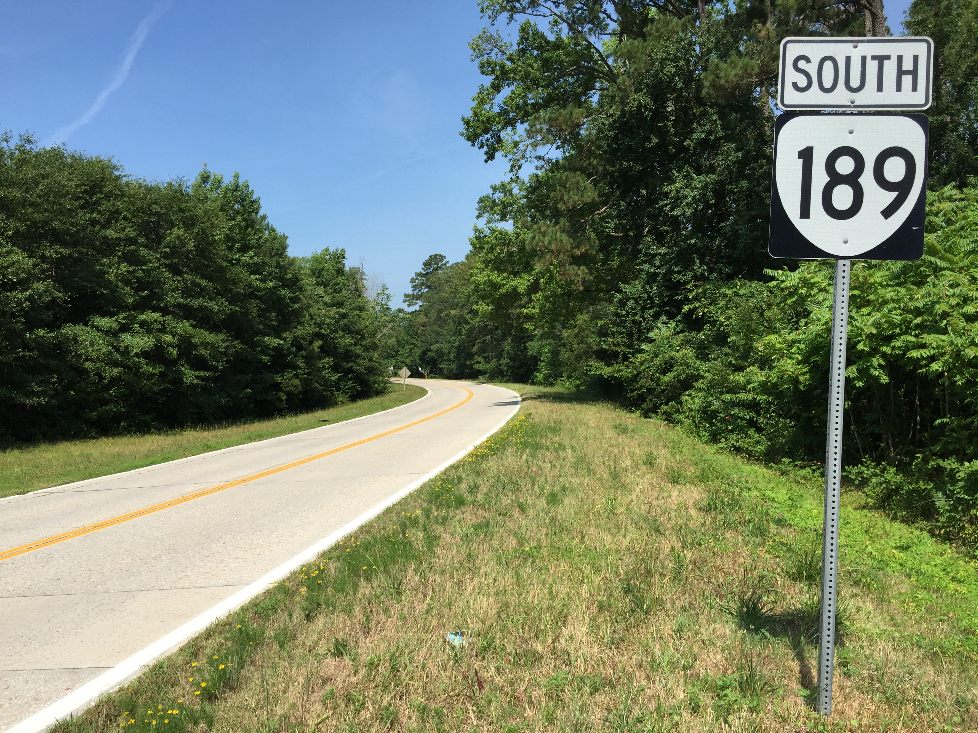 View south along Virginia State Route 189 (Quay Road) at Virginia State Secondary Route 714 (Pretlow Road) in Kingsdale, Southampton County, Virginia